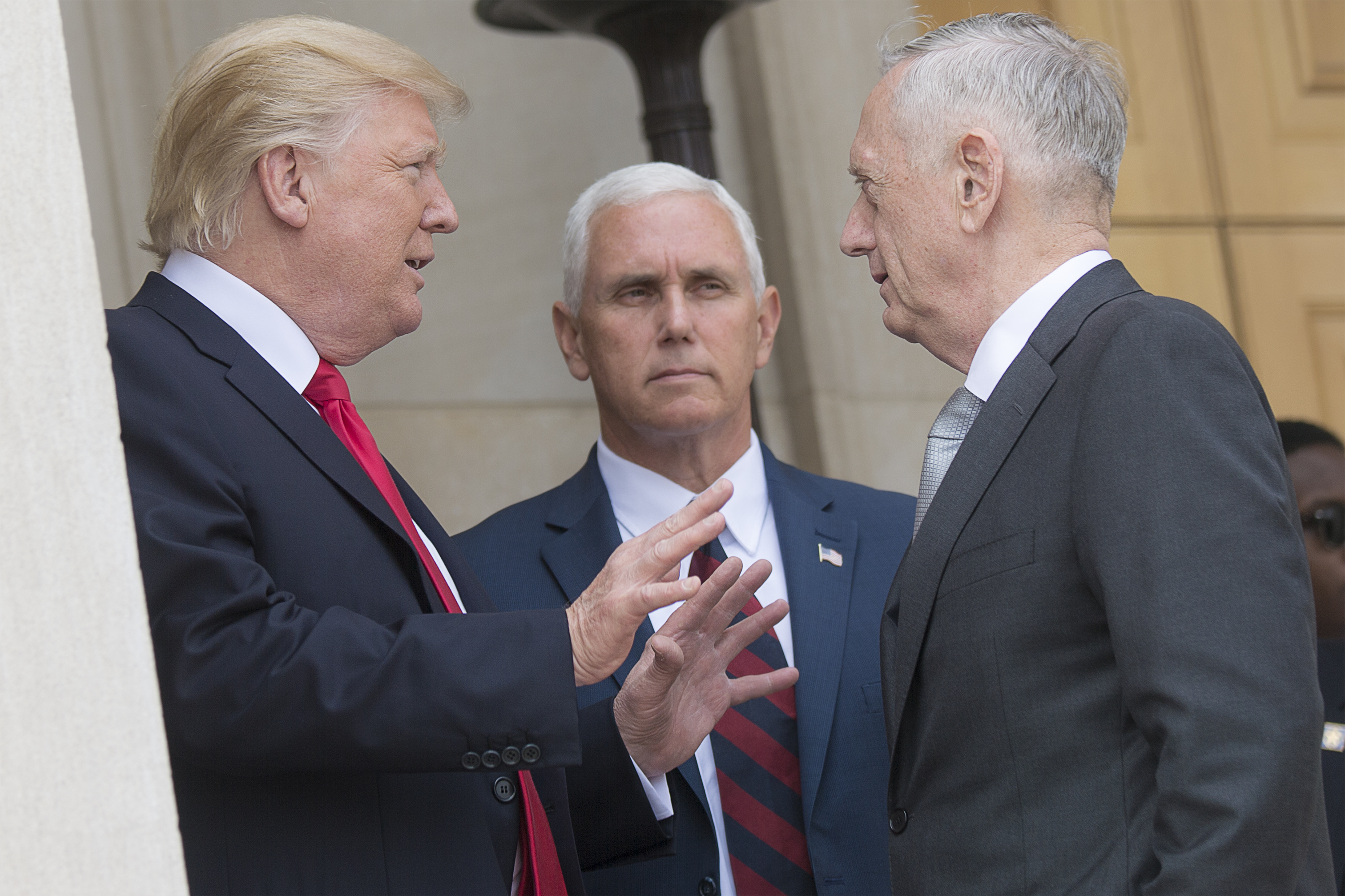 Secretary of Defense Jim Mattis speaks to President Donald Trump and Vice President Mike Pence July 20, 2017, at the Pentagon in Washington, D.C., following a meeting of the National Security Council. (DOD photo by U.S. Navy Petty Officer 2nd Class Dominique A. Pineiro) Unit: Office of the Chairman of the Joint Chiefs of Staff DVIDS Tags: president; Department of Defense; DOD; pentagon; secretary of defense; potus; mattis; pence; jim; vpotus; secdef; washington; dc; defense; secretary; donald trump; trump; Jim Mattis; JimMattis